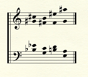 Theme d'accords from Olivier Messiaen's "Vingt Regards..."